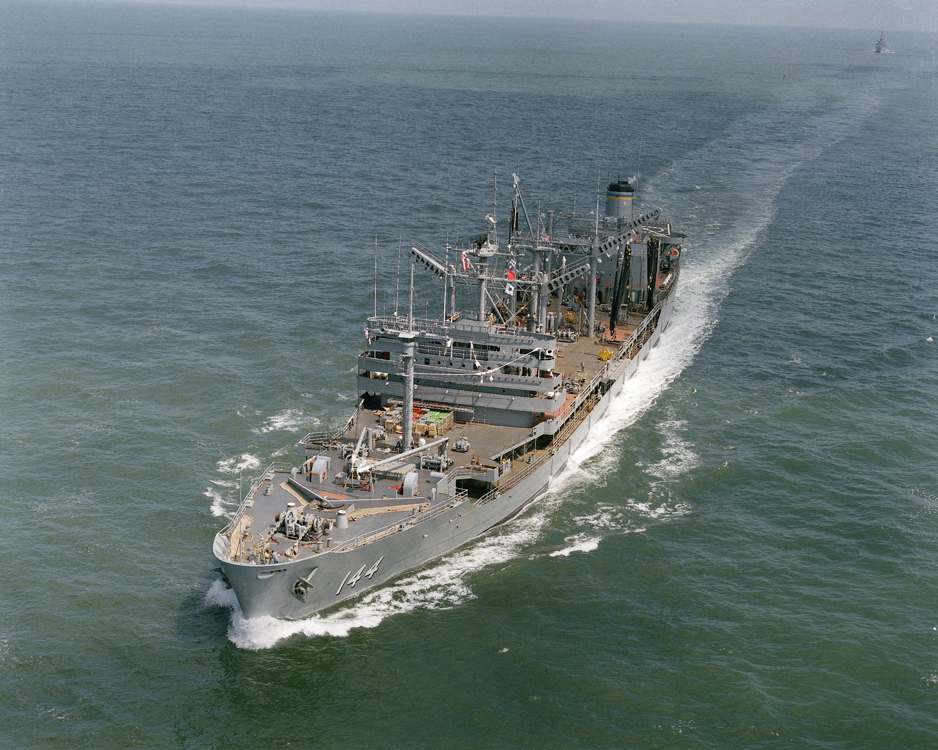 The U.S. Military Sealift Command fleet oiler USNS Mississinewa (T-AO 144) underway on 14 November 1986.